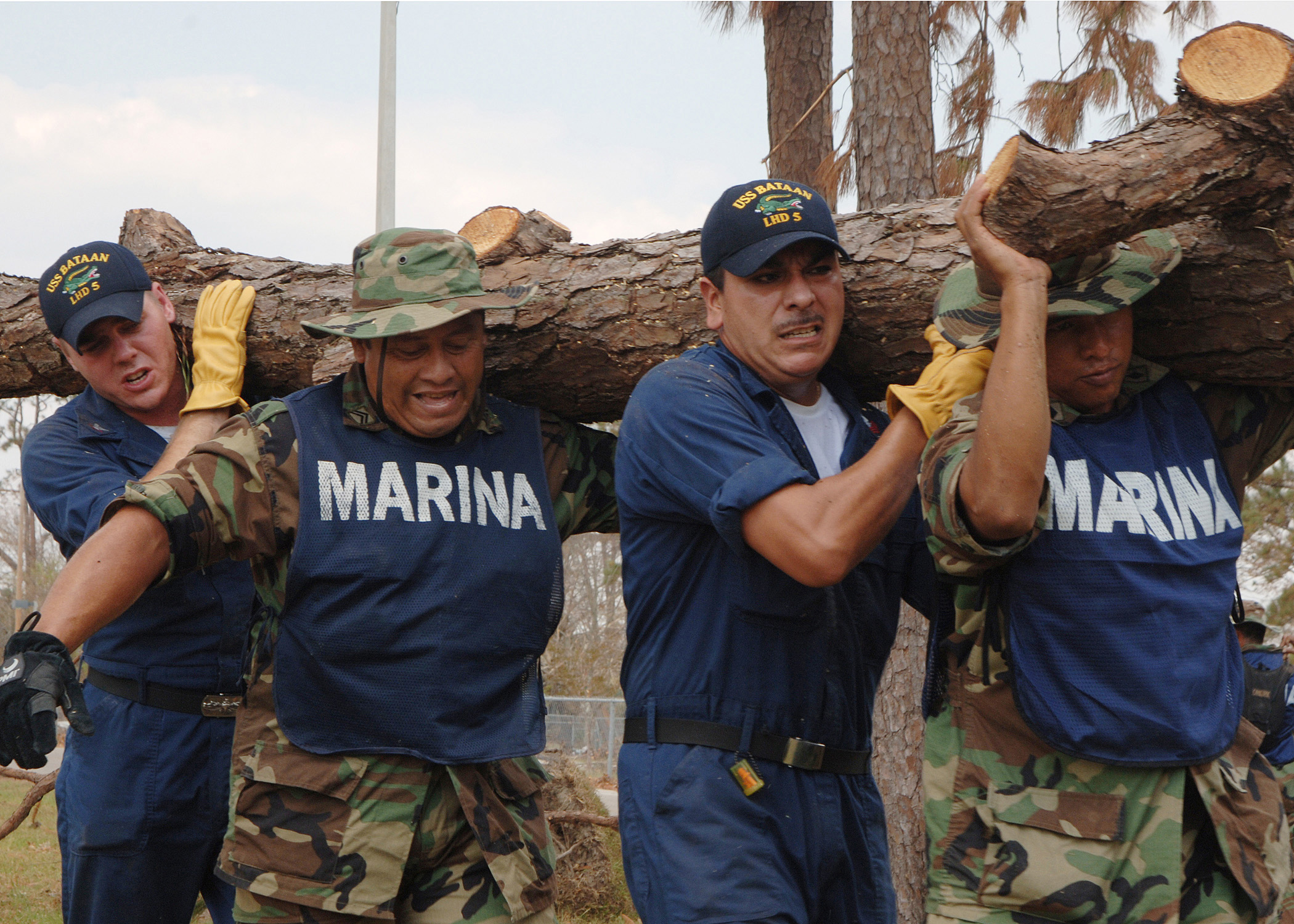 U.S. Navy sailors from the amphibious assault ship USS Bataan (LHD 5) and Mexican Marines carry a log as they remove Hurricane Katrina debris at the D'iberville Elementary School in D'iberville, Miss., on Sept. 9, 2005. Once the debris has been cleared the school will be used to provide food and medicine for evacuees. Department of Defense units are mobilized as part of Joint Task Force Katrina to support the Federal Emergency Management Agency's disaster relief efforts in the Gulf Coast areas devastated by Hurricane Katrina.